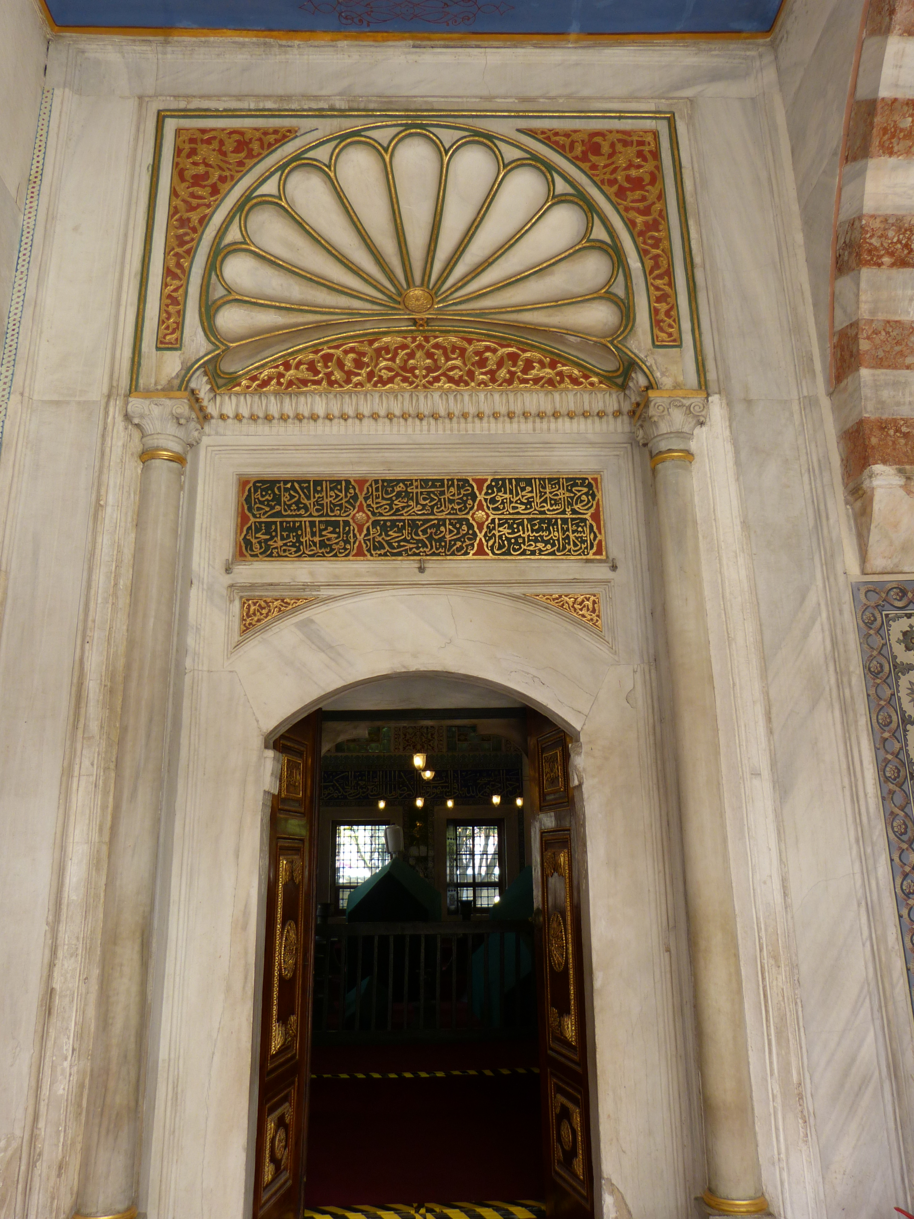 Türbe (Tomb) of Sultan Mehmed III. (1566–1603)